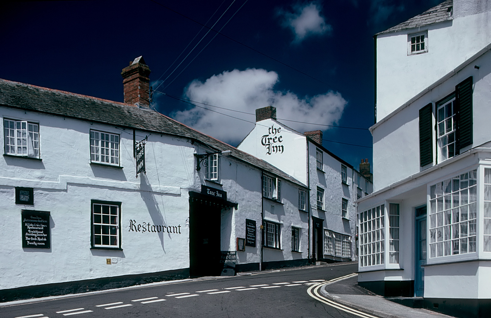 Historic Pub "The Tree Inn" in the village of Bude-Stratton, Cornwall/UK